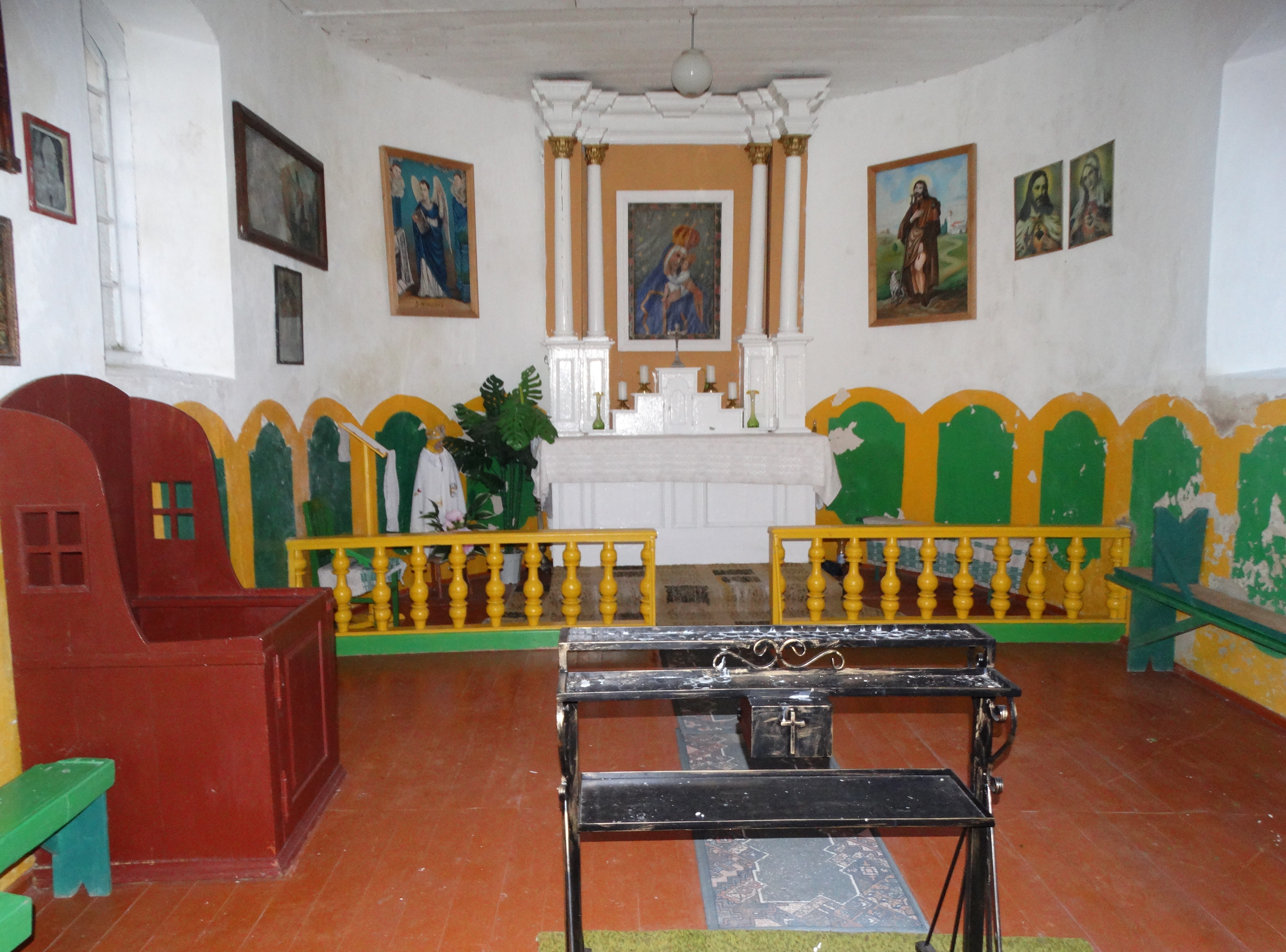 Mosėdis cemetery chapel, Skuodas District, Lithuania